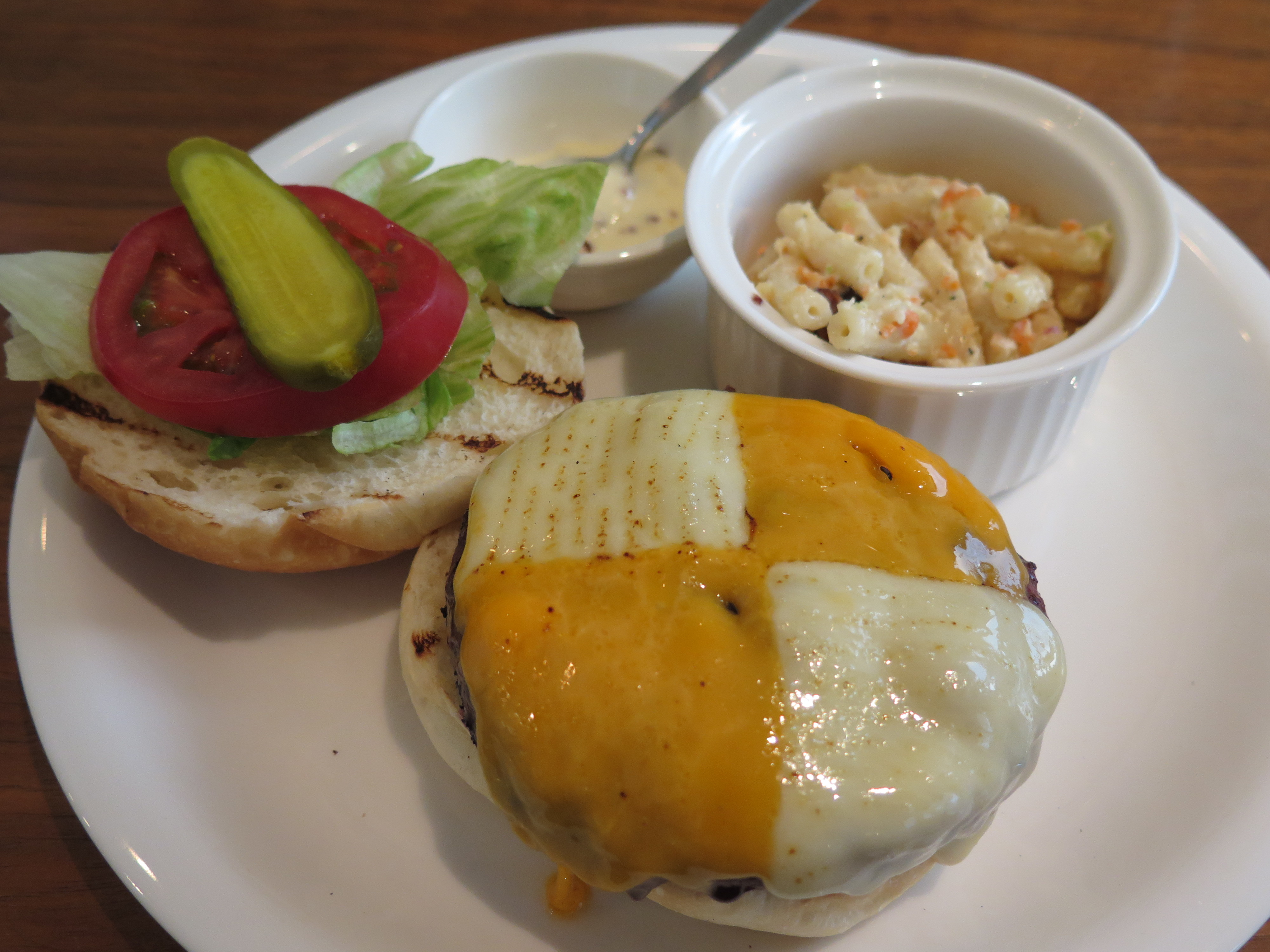 A plate with a cheeseburger and pasta salad. The cheeseburger is topped with several kinds of cheese forming a checker pattern on top. The top bun of the cheeseburger sits face up with lettuce, a slice of tomato, and a pickle on it.